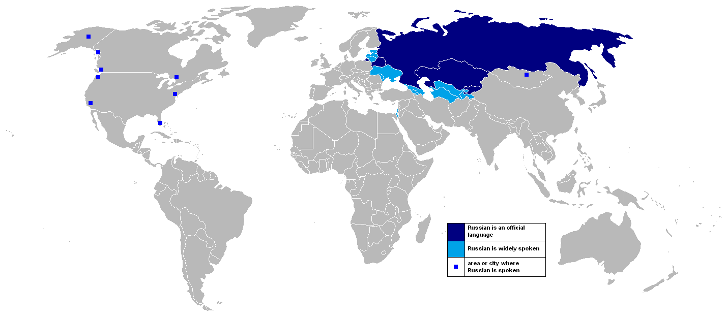 The status and use of Russian in the world. Blue squares indicate foreign cities where community conditions are adapted to those who speak only Russian. Unreferenced.